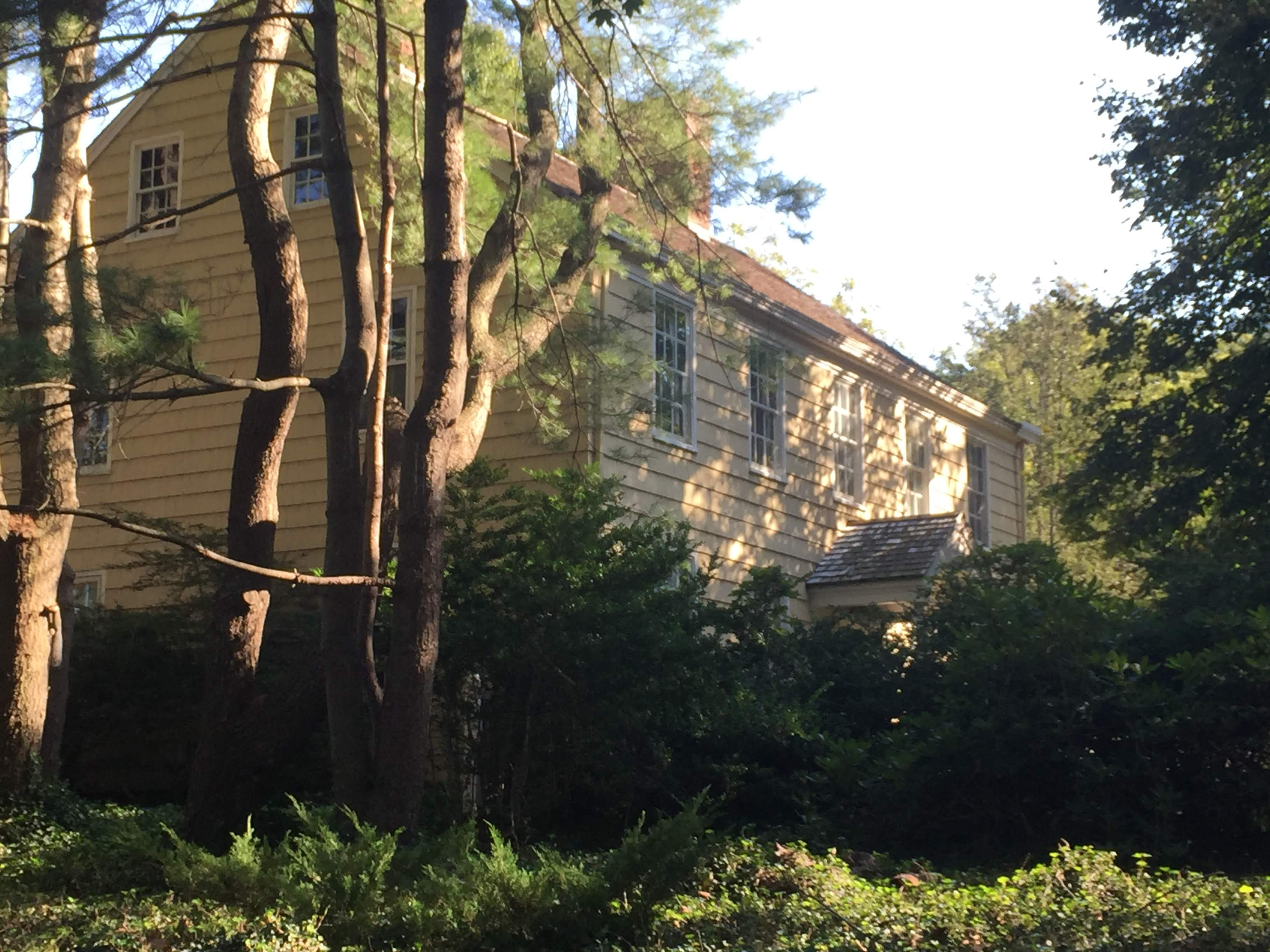 Taken from curve on southbound side of Pipe Stave Hollow Road